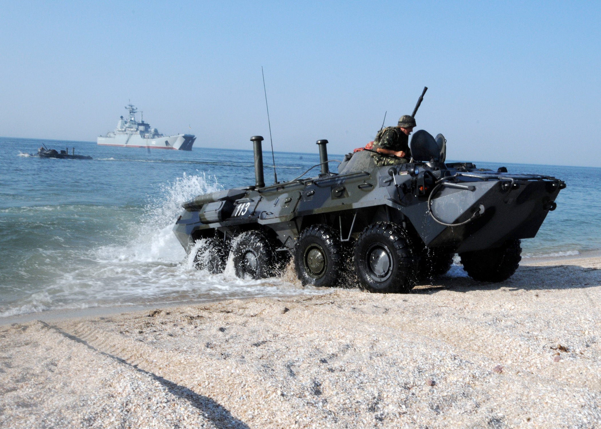 The Ukrainian 1st and 2nd Marine Divisions, from Shiroky Lan Air Field, storm the beaches of Tendra Island (in fact a peninsula), Ukraine, July 15, 2010, from amphibious assault vehicles and helicopters to simulate landing on an island overrun by pirates. Sea Breeze is an annual multinational exercise designed to strengthen maritime partnerships in the Black Sea region; Sea Breeze 2010 included service members from Azerbaijan, Austria, Belgium, Denmark, Georgia, Germany, Greece, Moldova, Sweden, Turkey, Ukraine and the United States.